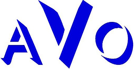 AVOmale